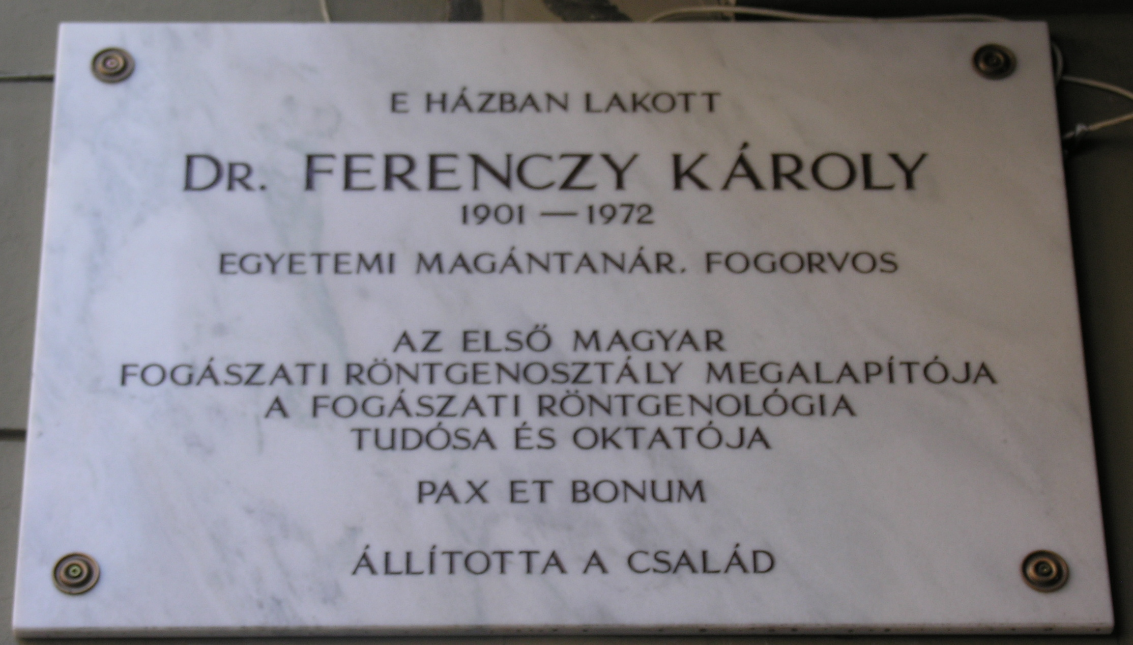 Commemorative plaque of the dentist Károly Ferenczy in Budapest District V, Kossuth Lajos Street No 3